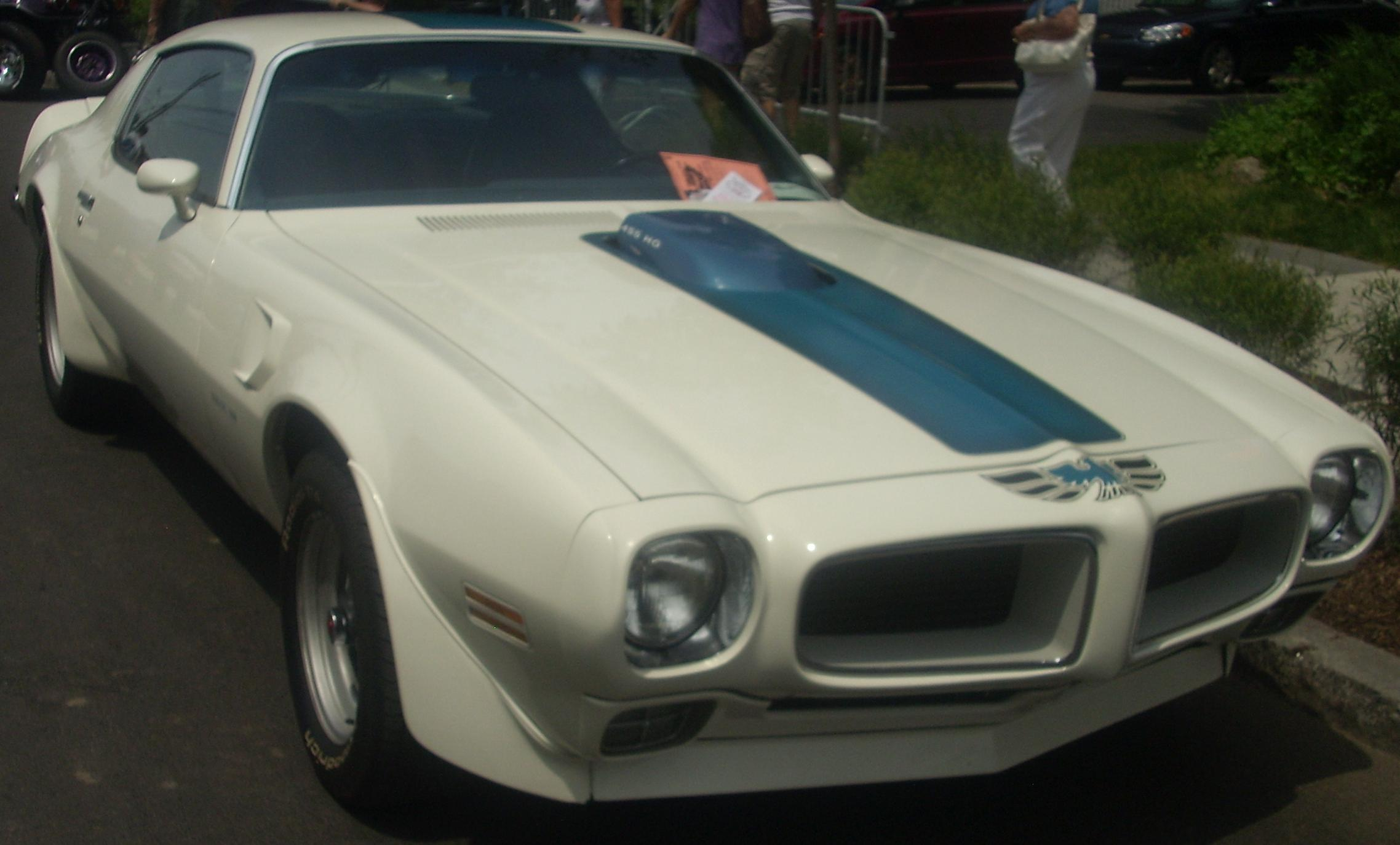 1971 Pontiac Trans Am photographed in Ste. Anne De Bellevue, Quebec, Canada at Cruisin' At The Boardwalk 2010.